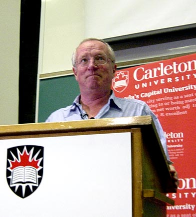 Robert Fisk during a lecture at Carleton University, Canada.